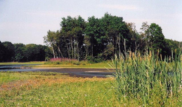 Brown Moss Nature Reserve. The water level in the meres was particularly low at the time when this picture was taken - July 2005